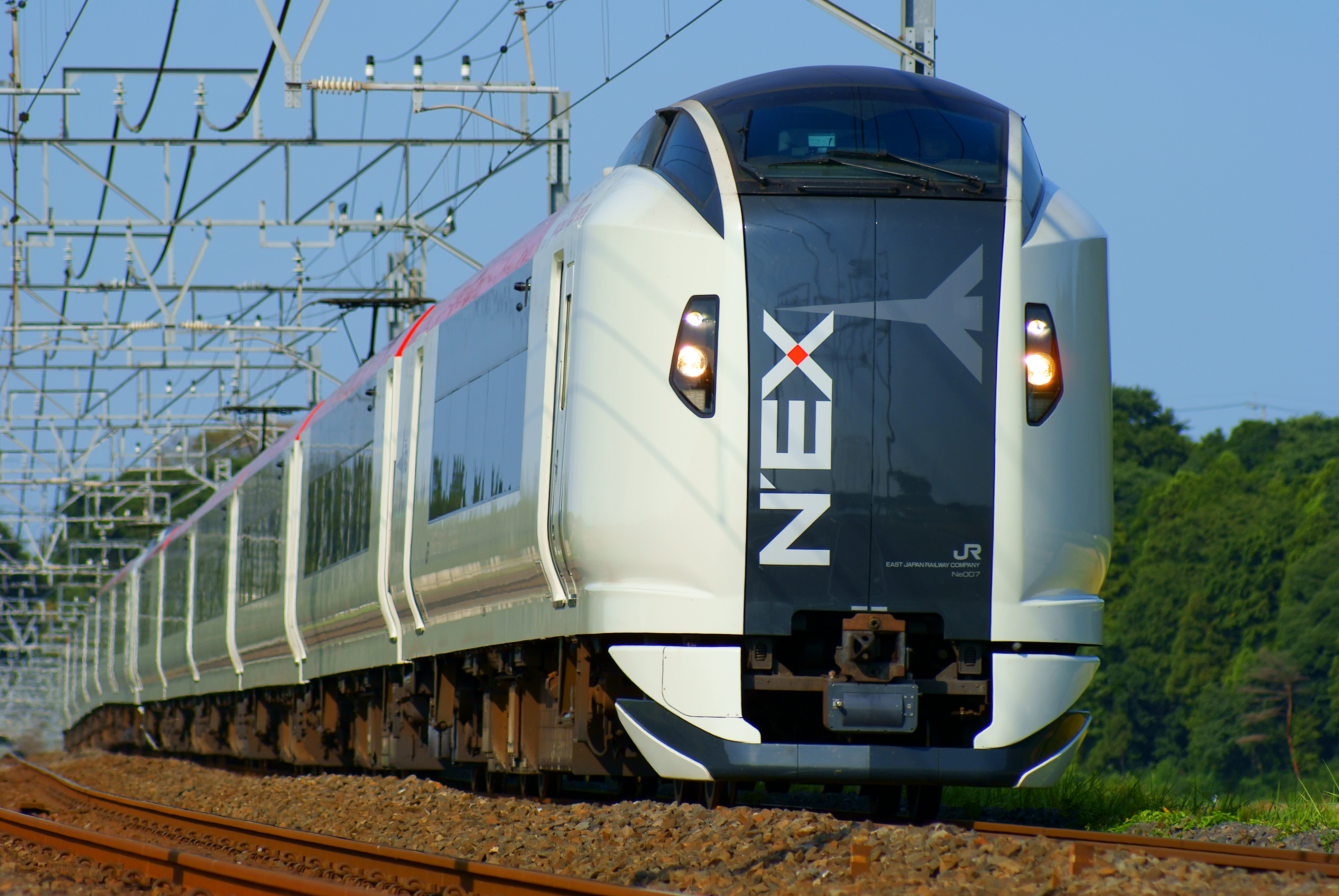 JR East E259 series EMU set number Ne007 at the head of a Narita Express limited express service